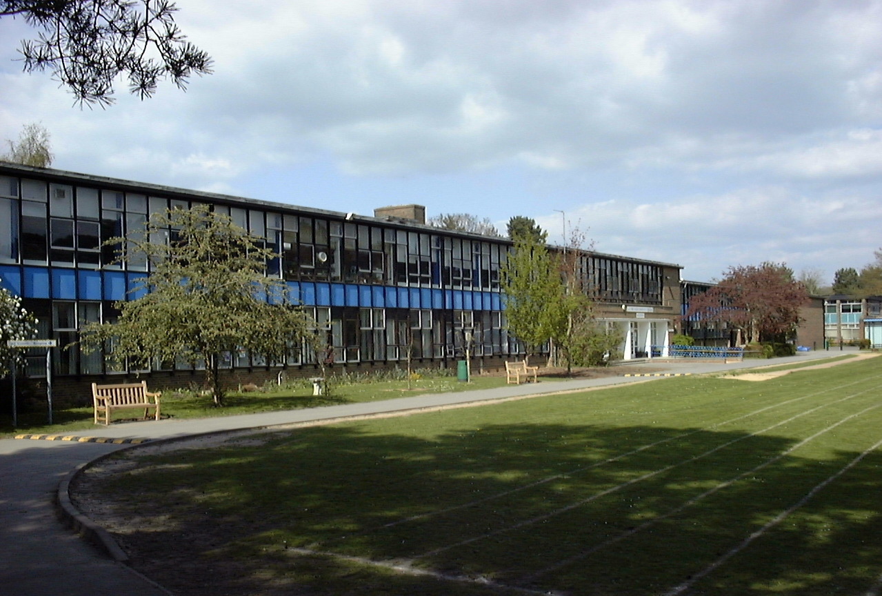 The Hurst Community College, Baughurst, England. The picture was taken under conditions of sun and clouds at approximately 14:00 UTC. The equipment used was a Toshiba PDR-M1 digital camera in Auto mode. The original picture was cropped from the bottom to remove excess foreground.